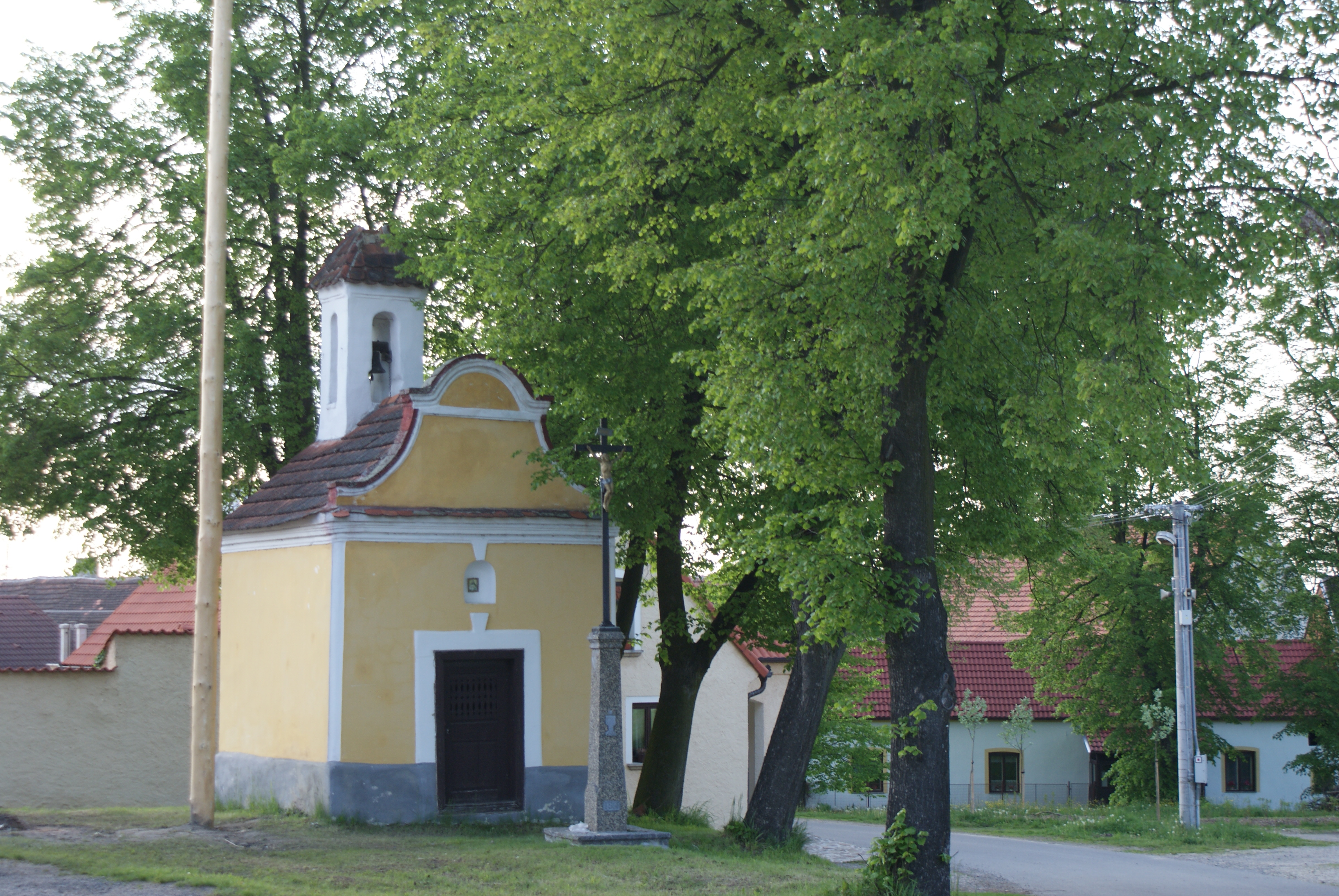 Štětice, part of the Ražice village in Písek district, Czech Republic. A chapel on the village common.